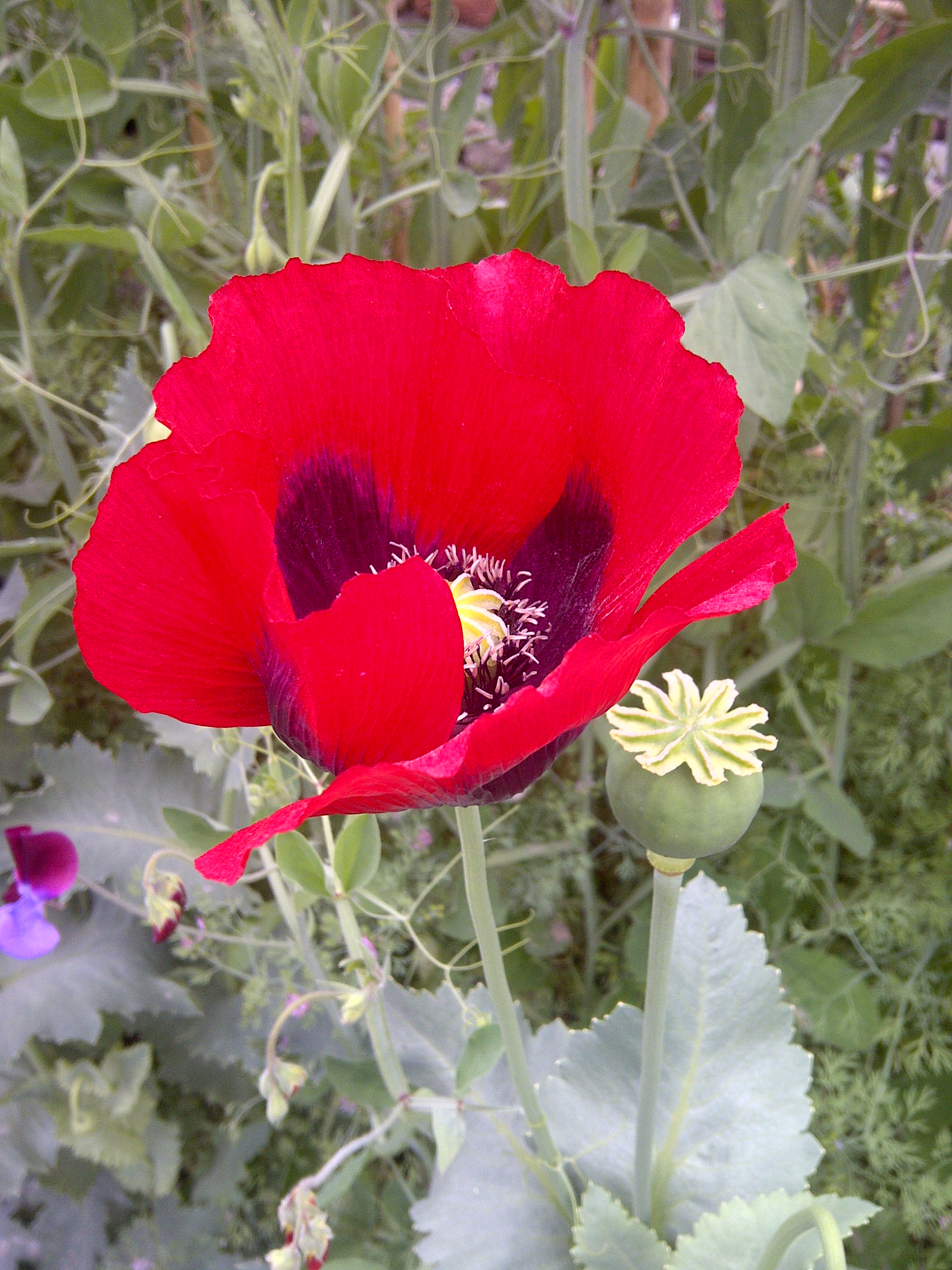 Poppy with bud